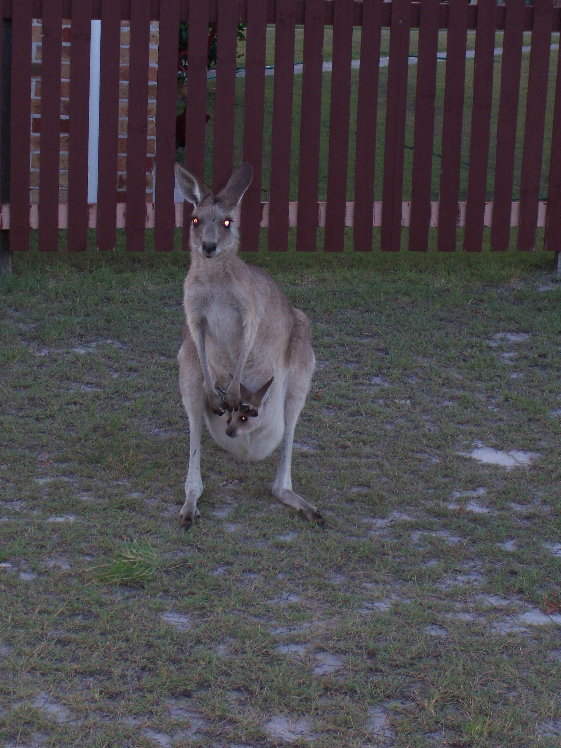 A kangaroo with a joey, in a suburban front yard in Woodgate, Queensland.